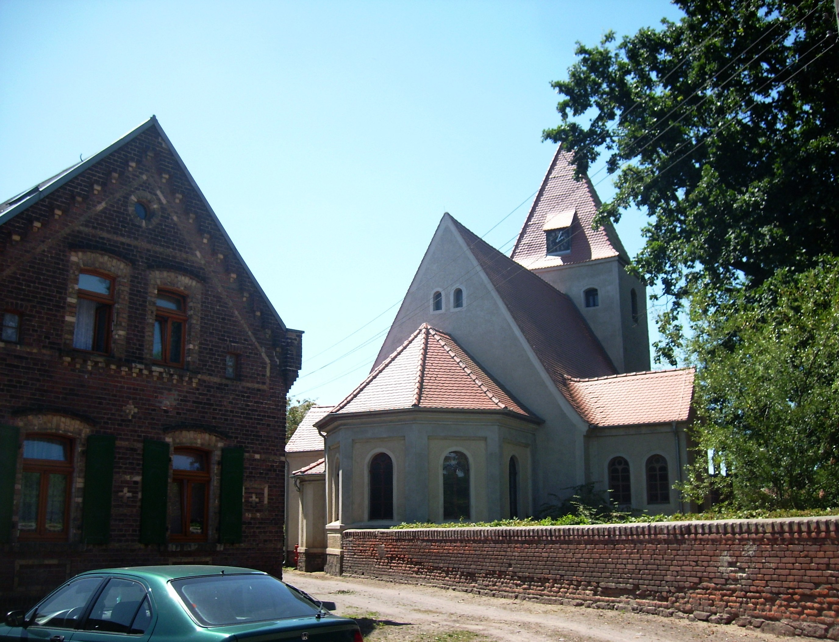 St. Martin Church in Löberitz (Zörbig, Anhalt-Bitterfeld district, Saxony-Anhalt)